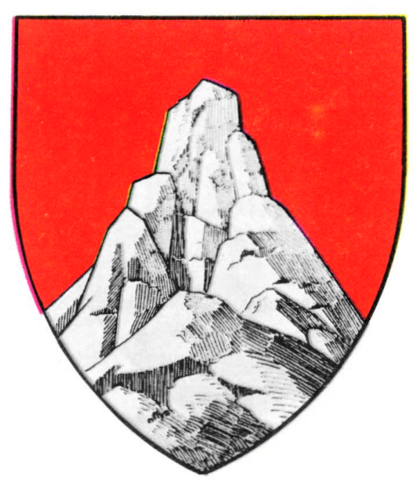 Interwar coat of arms of Bacău County, Kingdom of Romania.